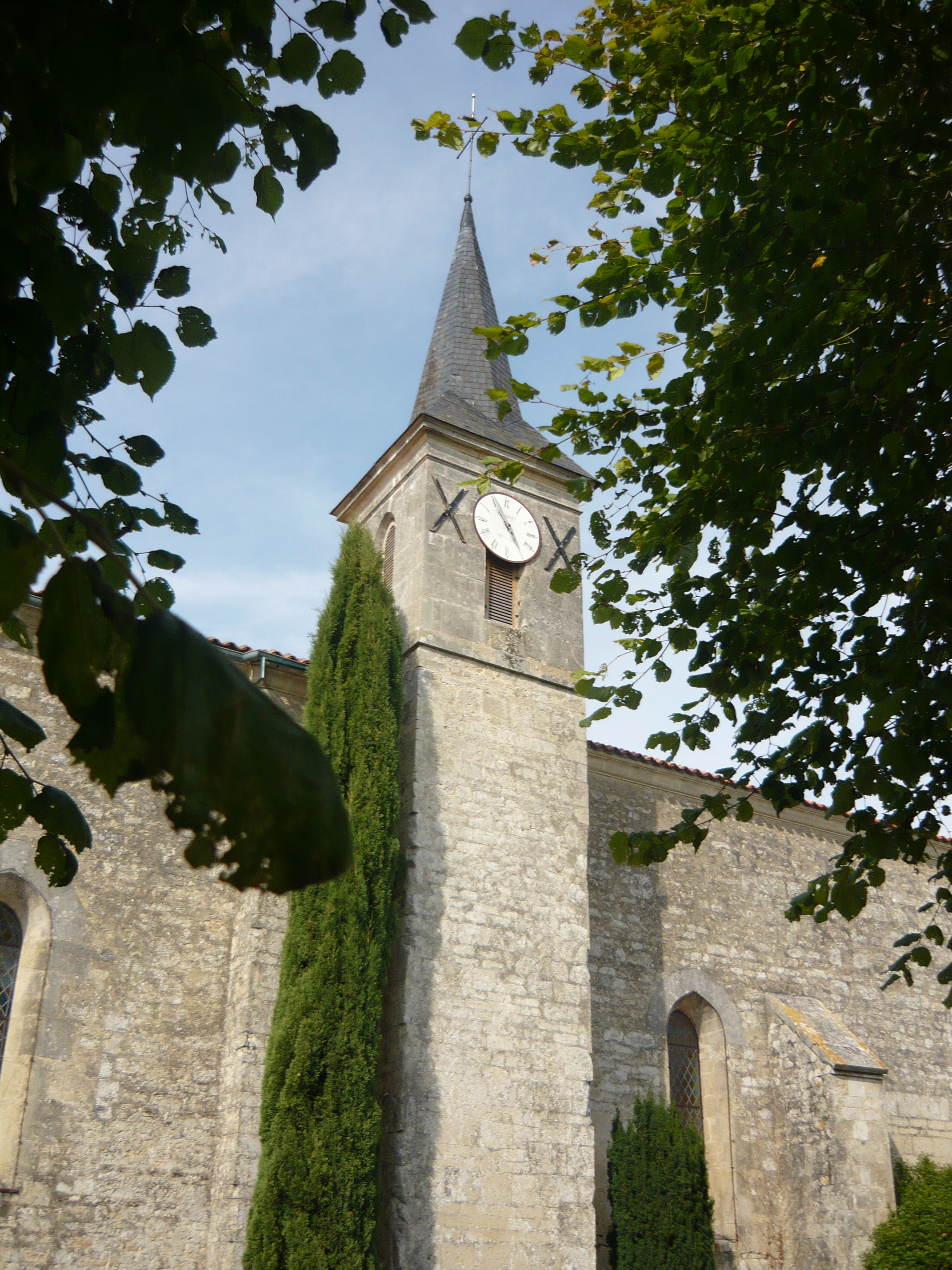 Saint-Benoit church, Migré, Charente-Maritime